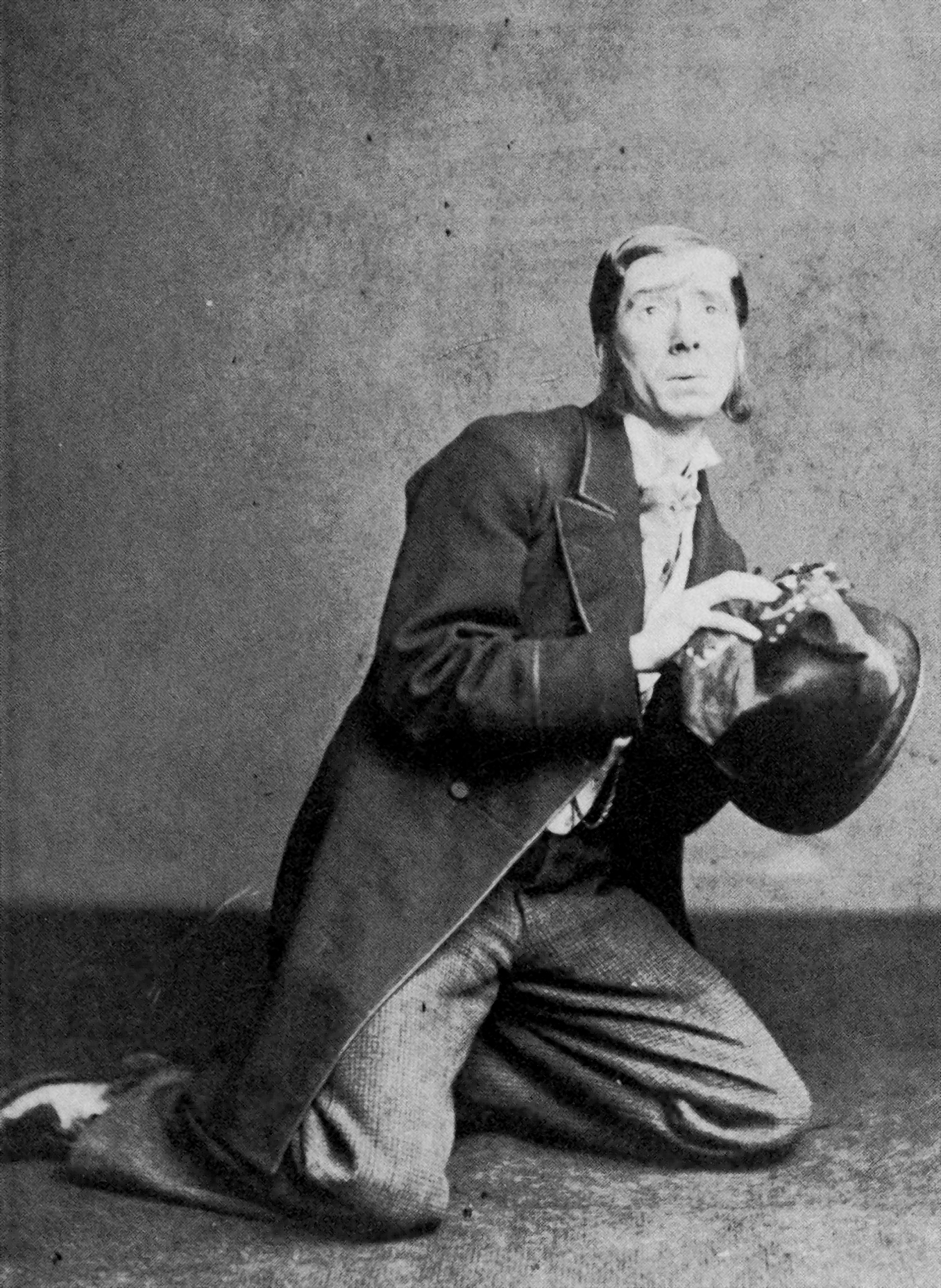 George Grossmith in The Sorcerer, c. 1877